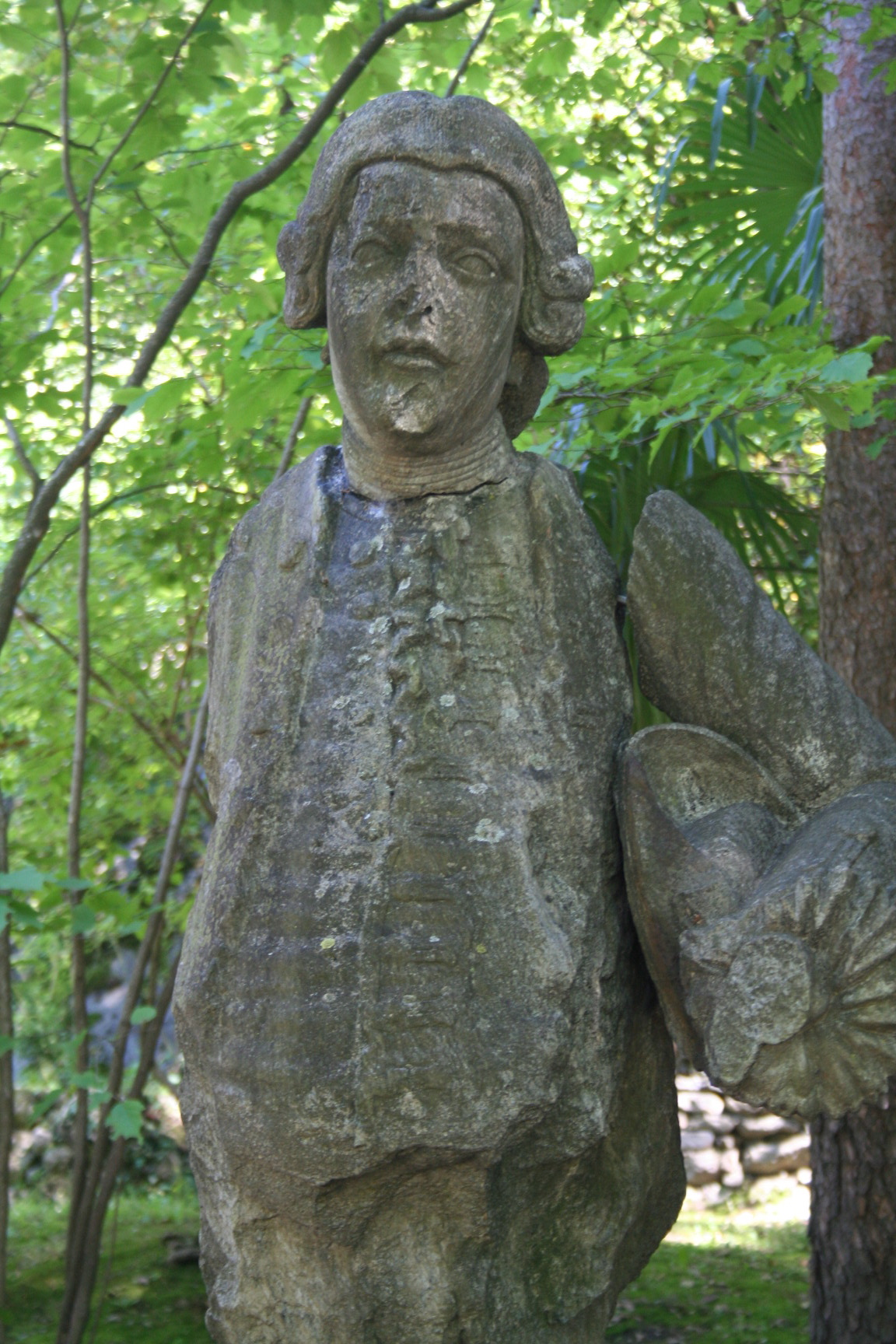 digital photo (R. de Salis, June 2009) of the torso of the 1780s statue of Peter 3rd Count de Salis which was put up in his honour and then dismembered during a spin off of the French Revolution, c.1799Rodolph (talk) 22:44, 14 December 2009 (UTC)